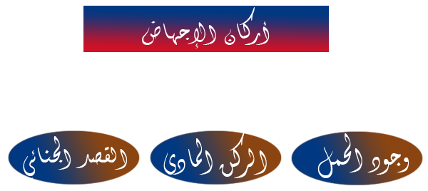 Elements of abortion in the Egyptian law